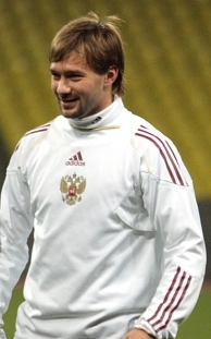 Dmitry Sychev training for Russian national football team